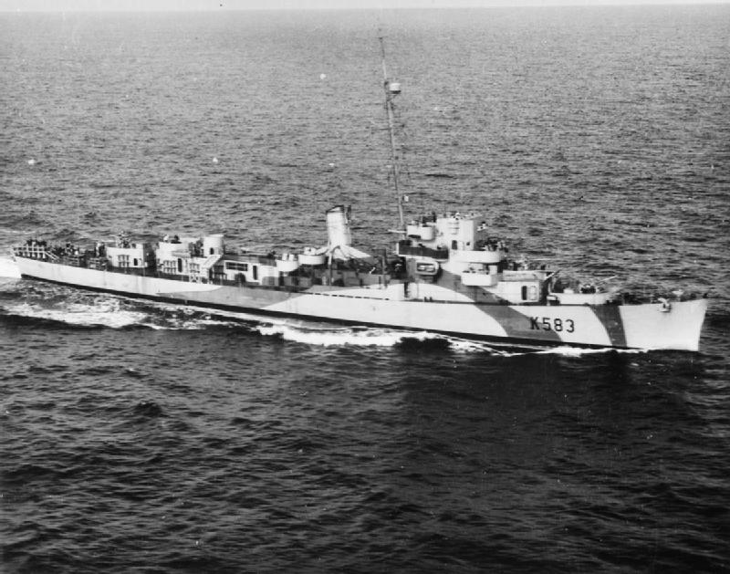 IWM caption : HMS HOTHAM, Captain class frigate, underway at sea, photographed from an aircraft operating from Royal Navy Air Station HMS OSPREY, Dunoon.